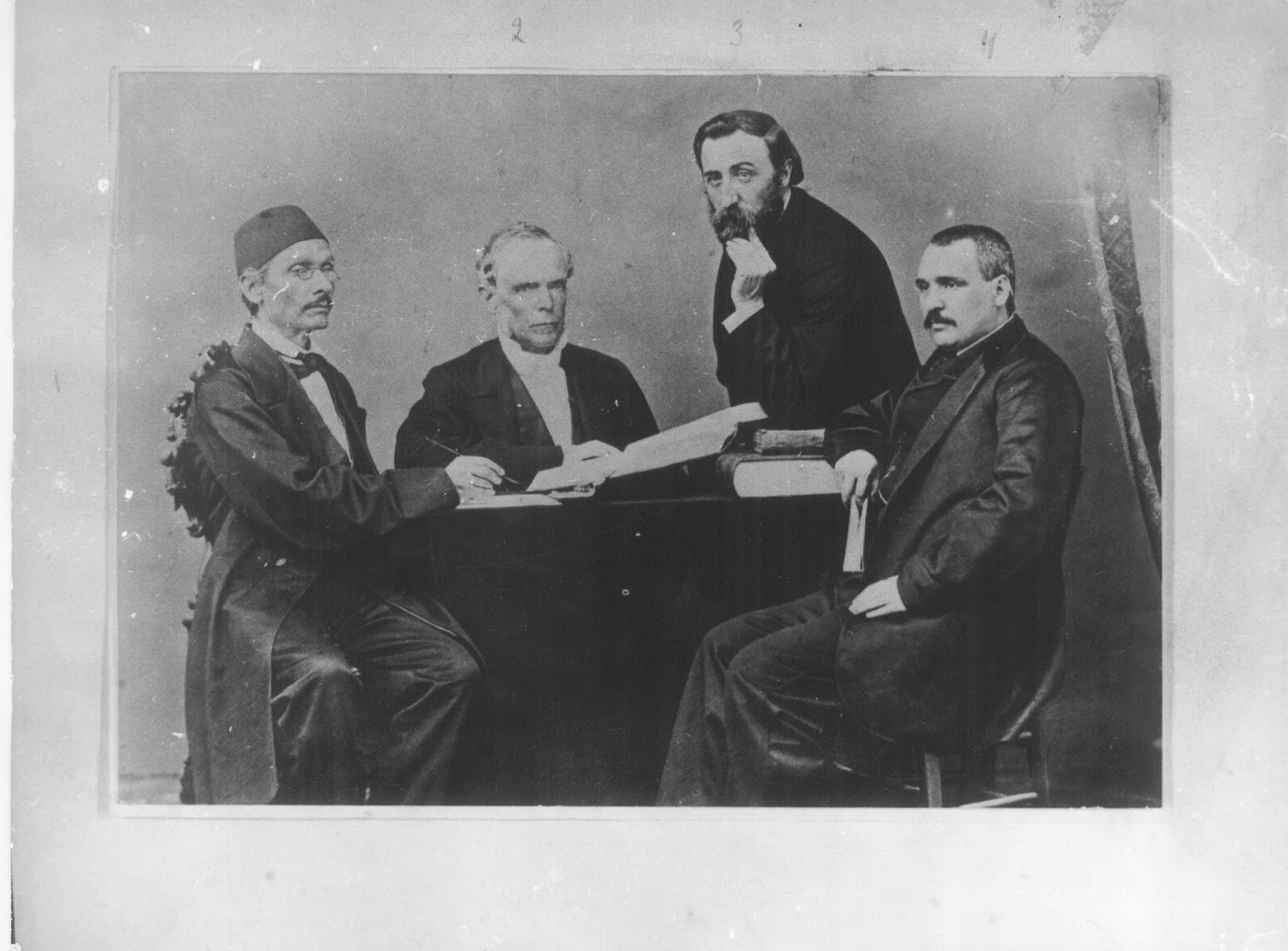 Hristodul Kostovich Sichan Nikolov, Elias Riggs, Albert Long and Petko Slaveykov in Constantinople, circa 1864 - 1865